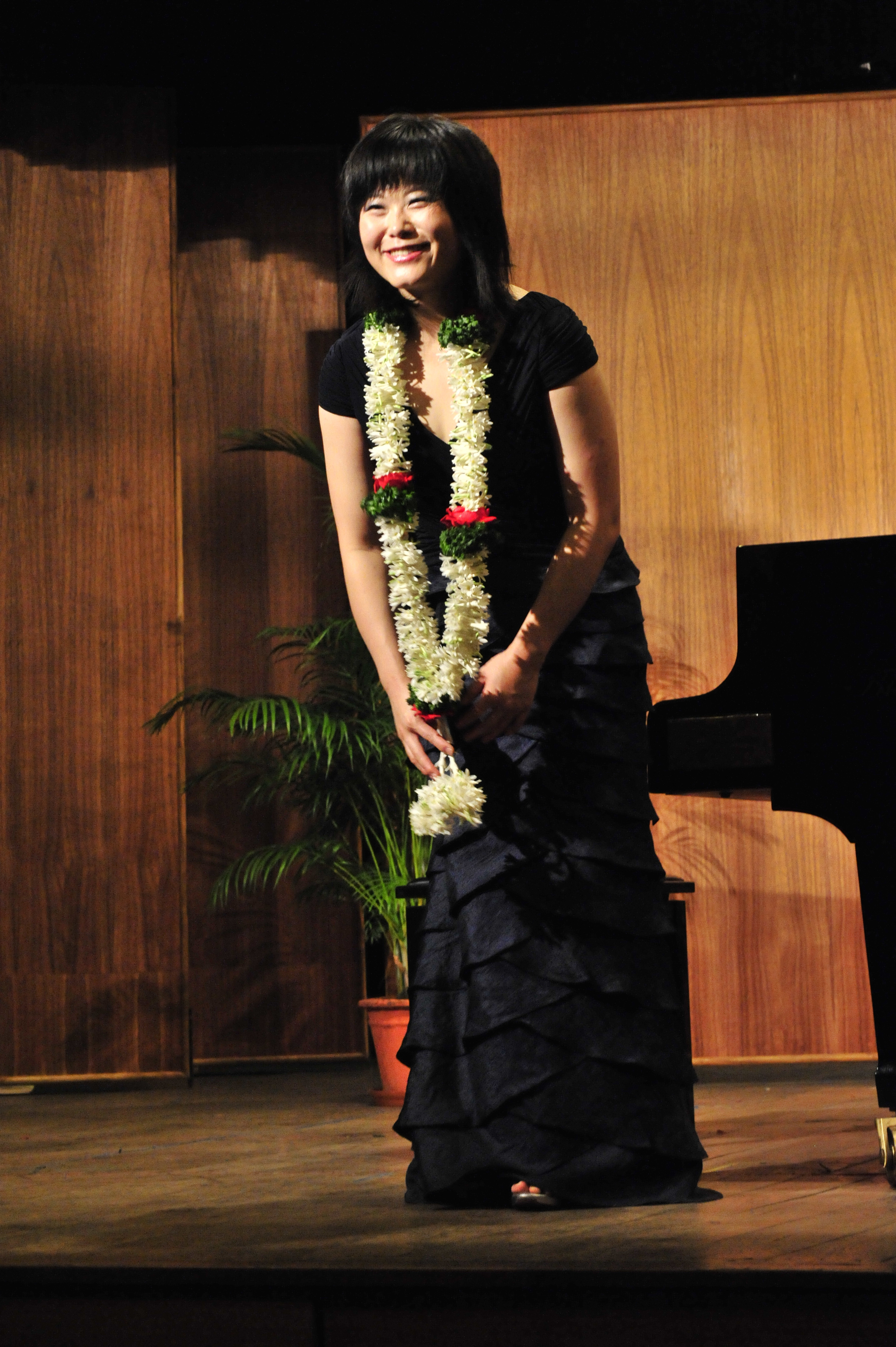 Pianist Ang Li taking a bow after a performance in Pune, India. Ang Li (pianist)